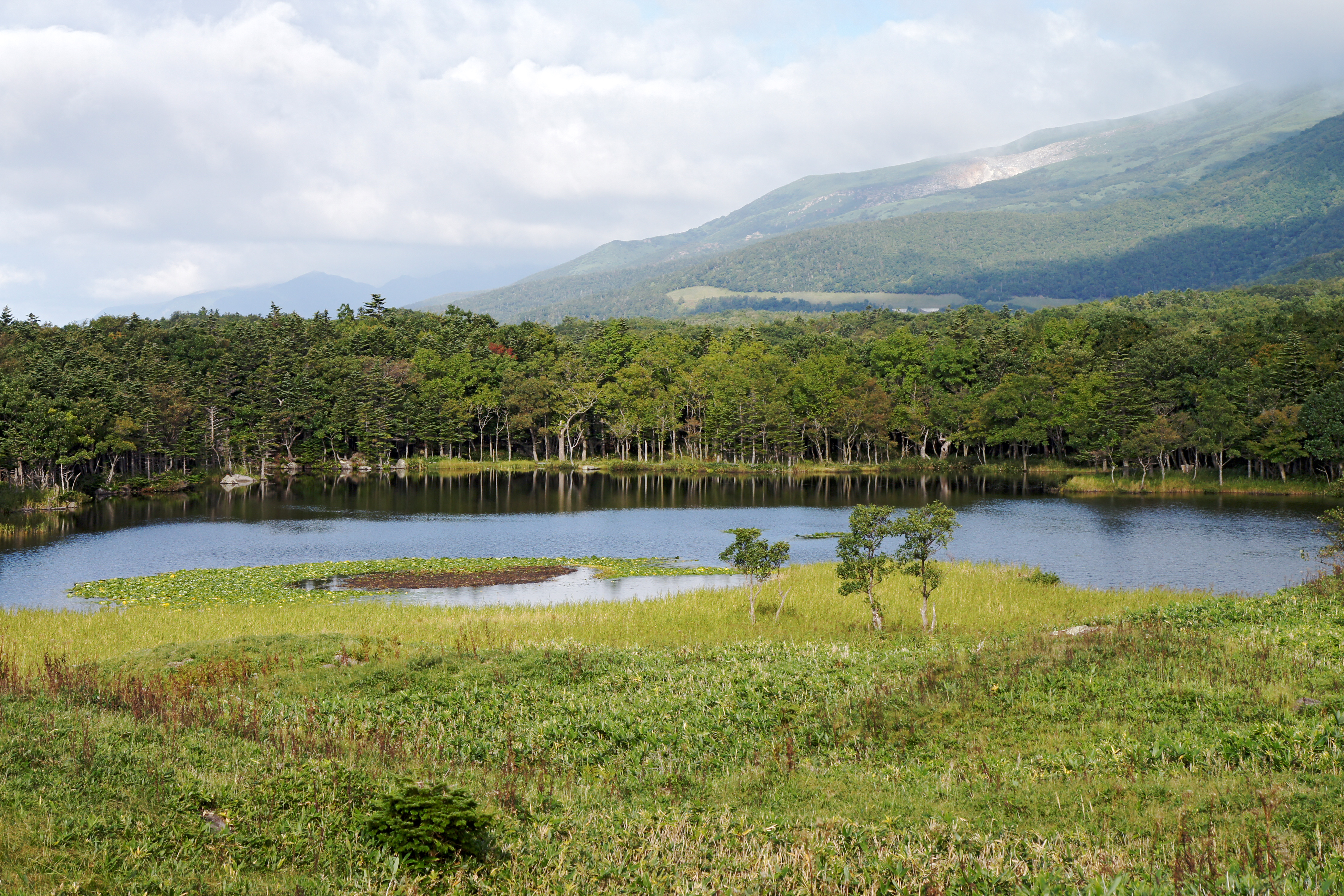 Ichiko of Shiretoko Goko Lakes in Shari, Hokkaido prefecture, Japan